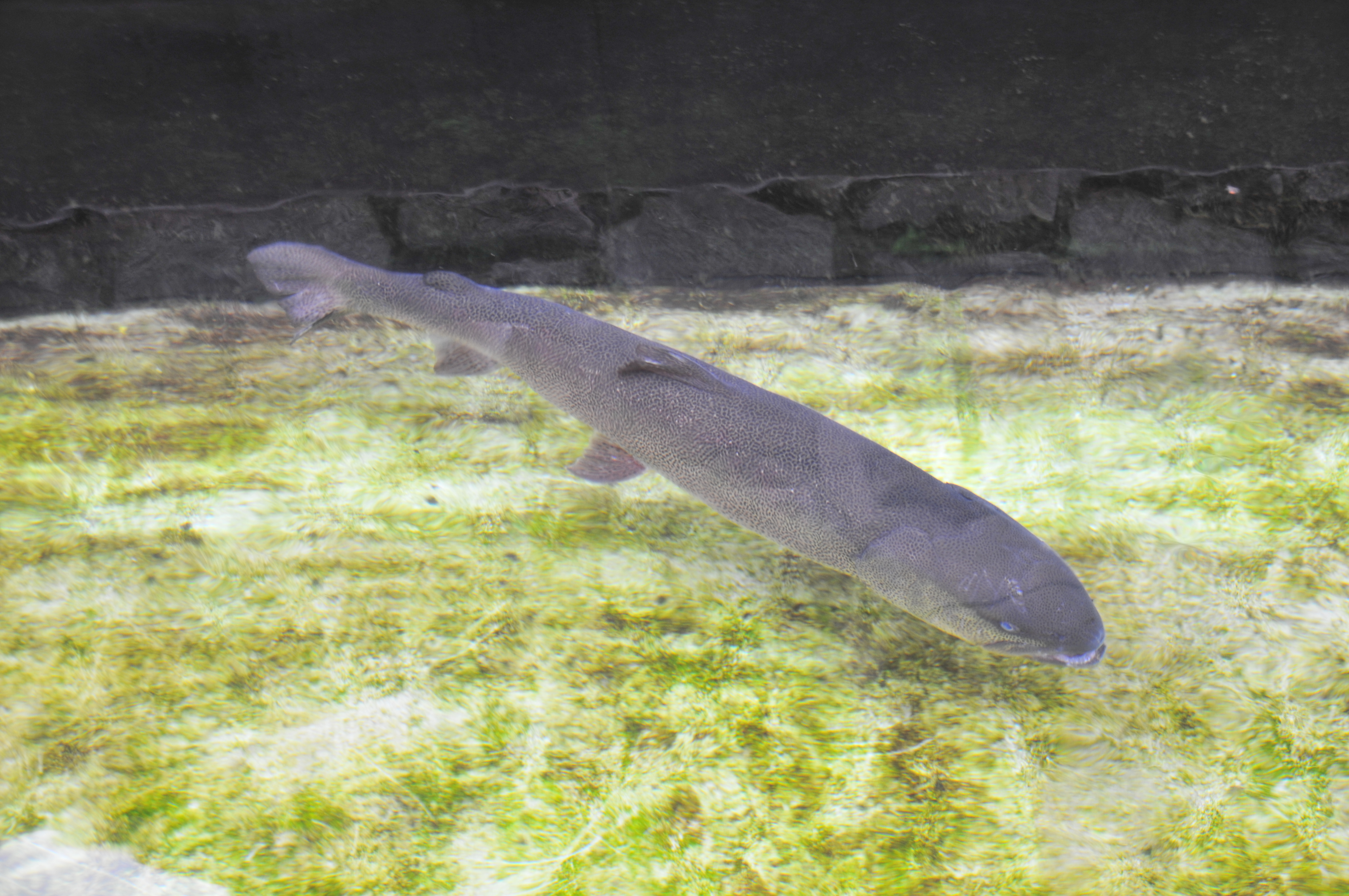 Hucho perryi (Ito, Japanese huchen) photo at Sapporo Salmon Museum, Sapporo city, Hokkaido, Japan.